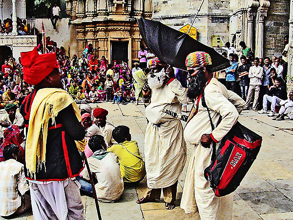 Gavari skit lampooning crooked itinerant traders and greedy "middlemen" educates the audience on their cons and tricks.